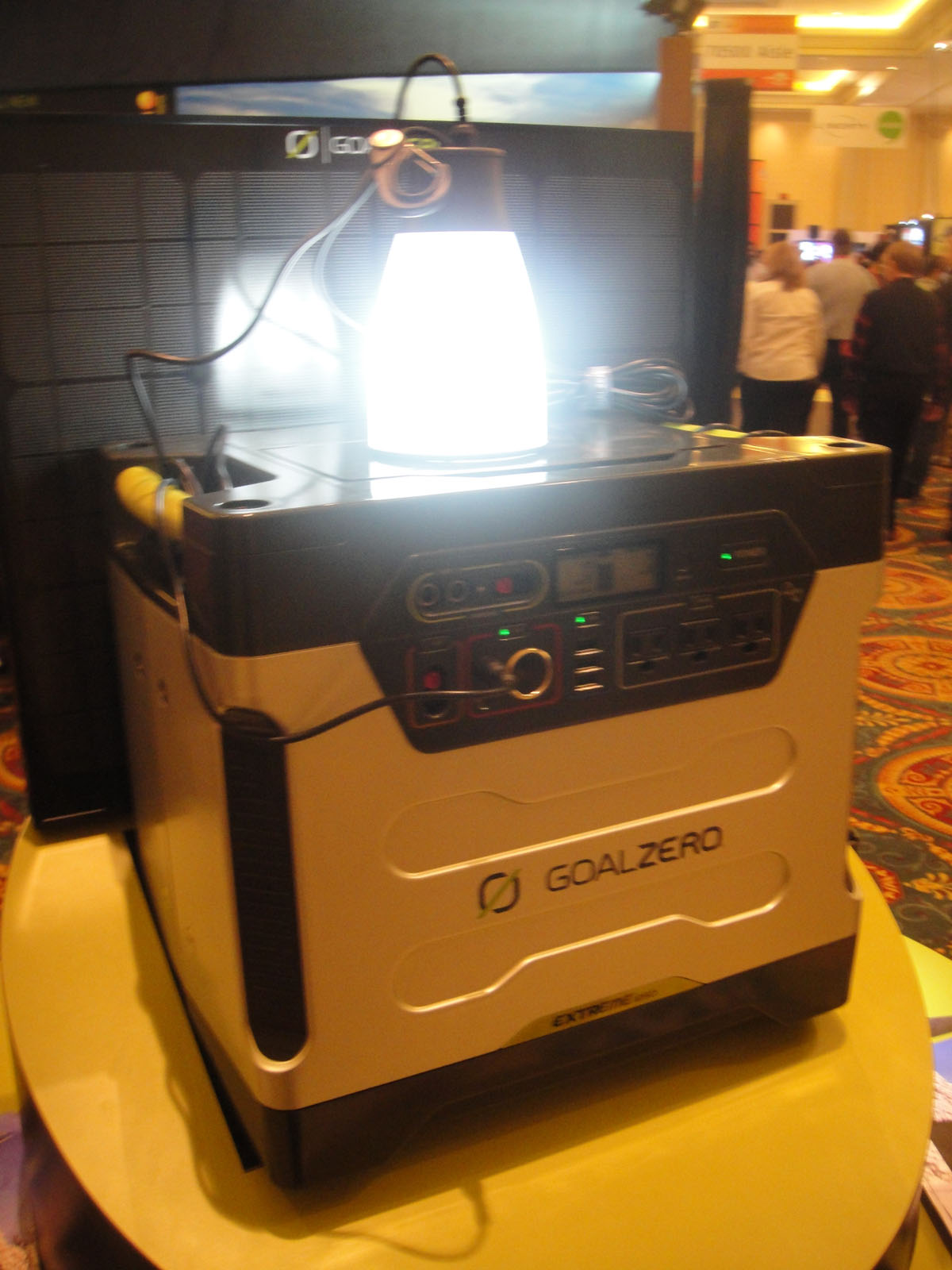 photo 2012 Pop Culture Geek taken by Doug Kline If you're interested in higher resolution versions of my images, contact me via my profile page.